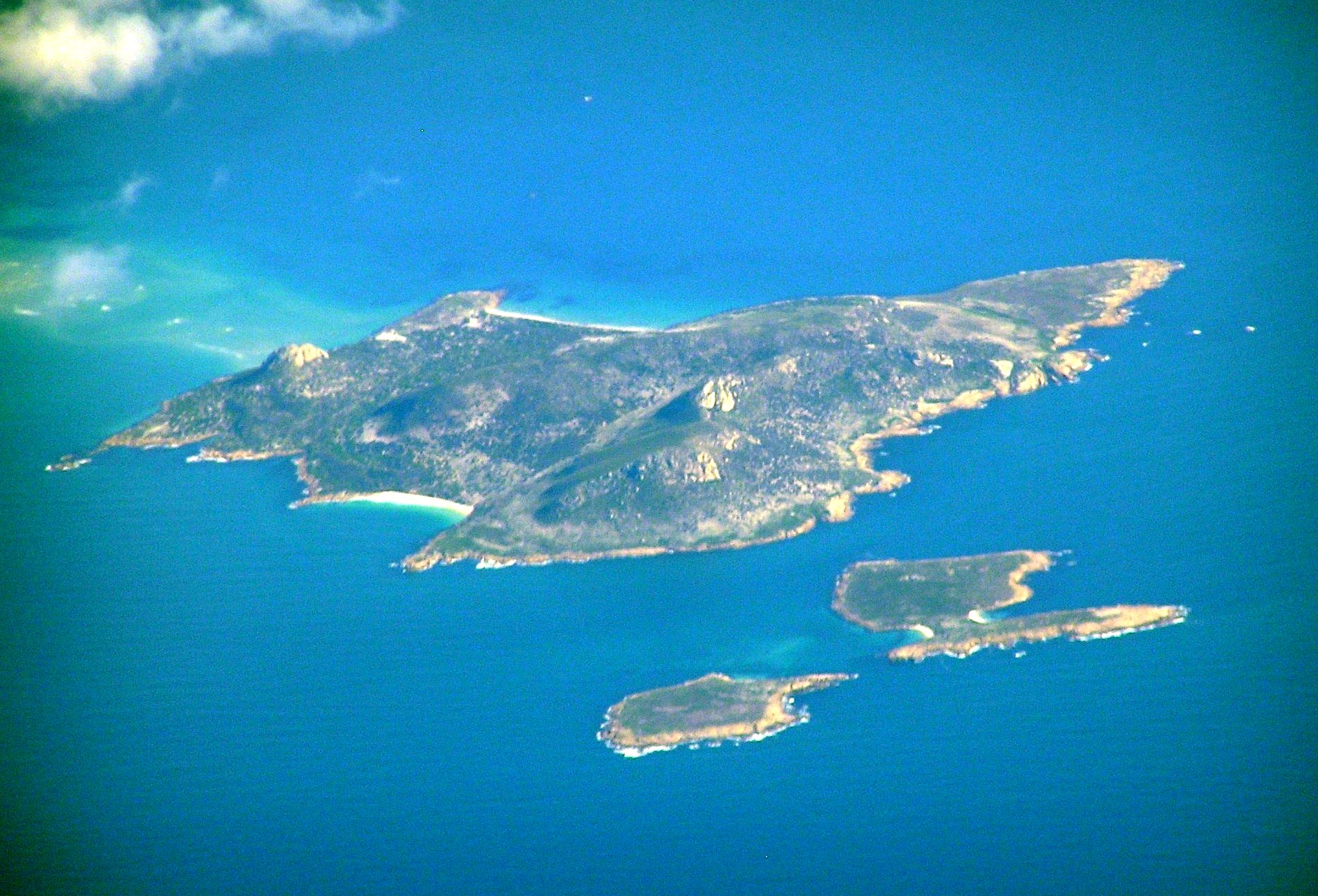 Aerial photo of Babel Island Tasmania, also Cat Island and Storehouse Island